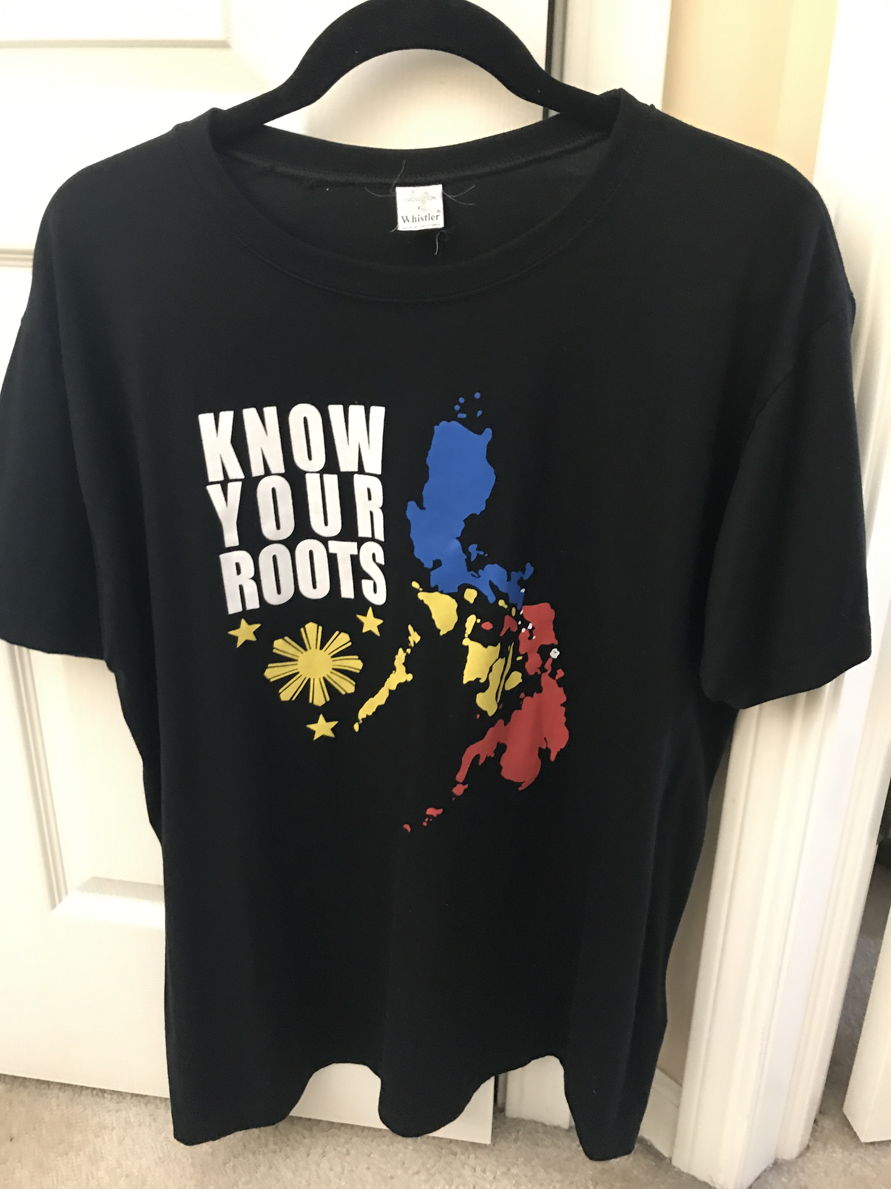 A t-shirt depicting a Filipino design